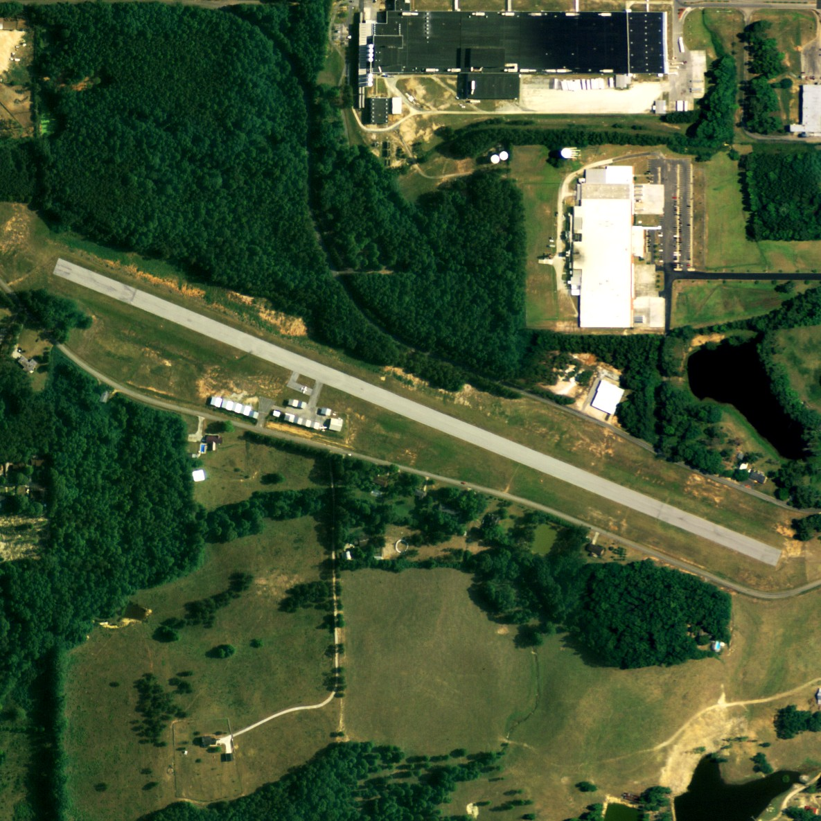 Aerial image of Roanoke Municipal Airport in Roanoke, Alabama, United States